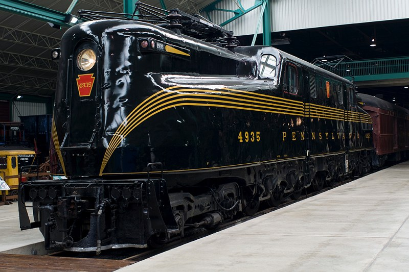 Taken at the Railroad Museum of Pennsylvania is Strasburg, PA (USA)